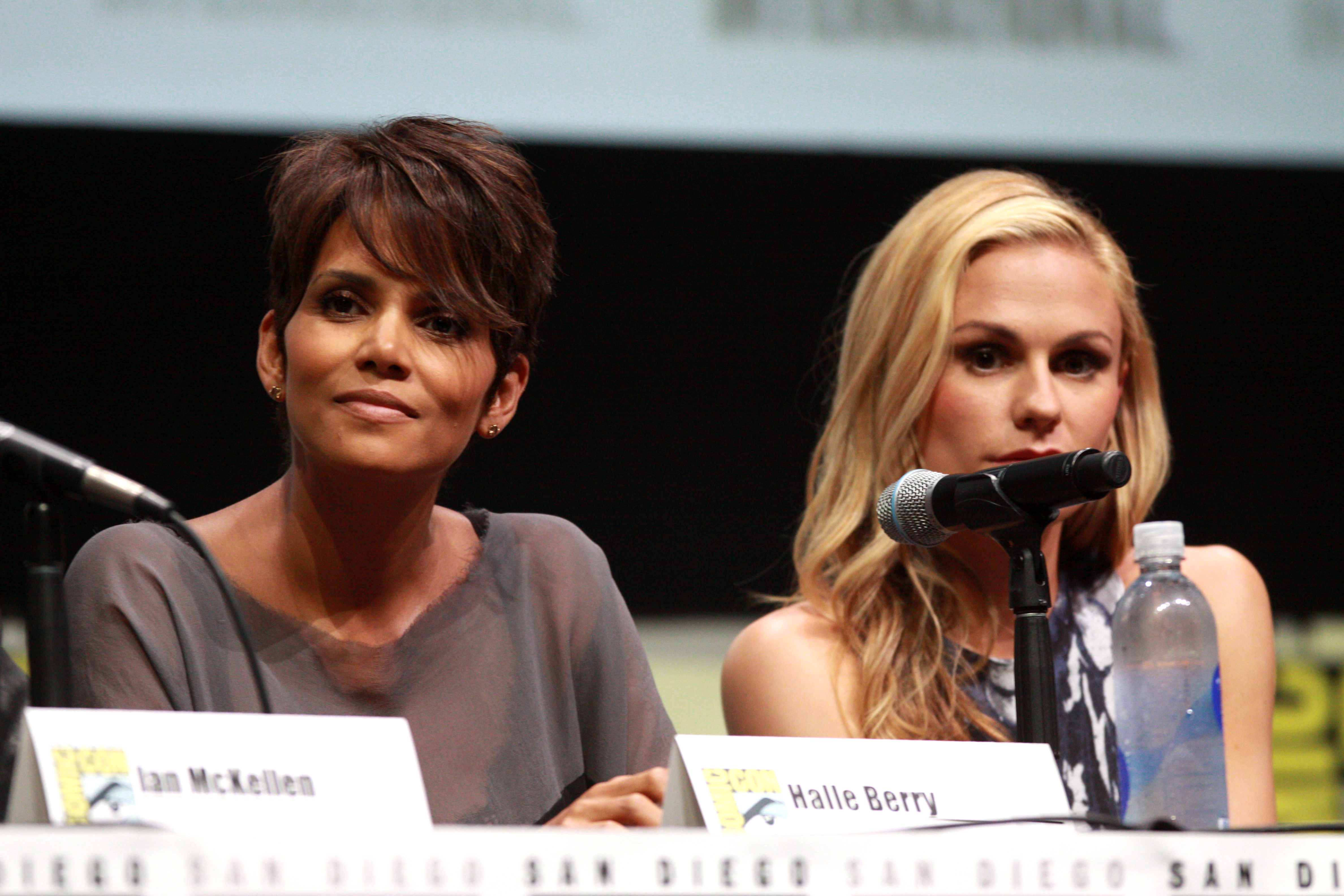 Halle Berry and Anna Paquin speaking at the 2013 San Diego Comic Con International, for "X-Men: Days of Future Past", at the San Diego Convention Center in San Diego, California.